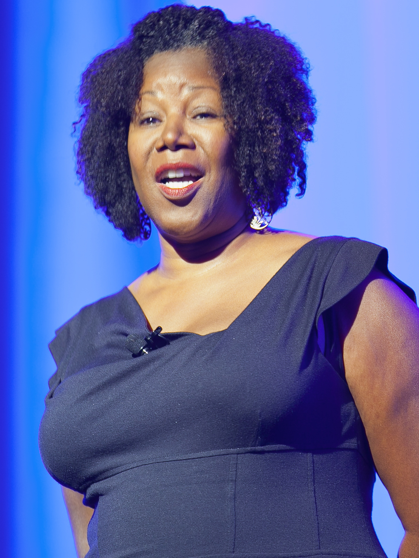 Ruby Bridges